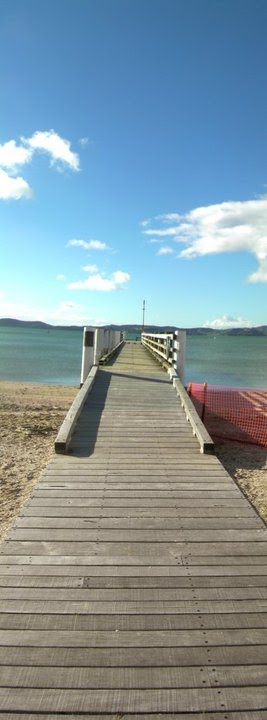 Pier at Maraetai Beach, in greater Auckland area of New Zealand. It juts out into the Hauraki Gulf. Years back, cattle and sheep were walked on to this pier, to be picked up by boat and taken to Auckland for processing. This picture is public domain from An American's perspective on New Zealand (see notice at top of article). Questions? Ask here.